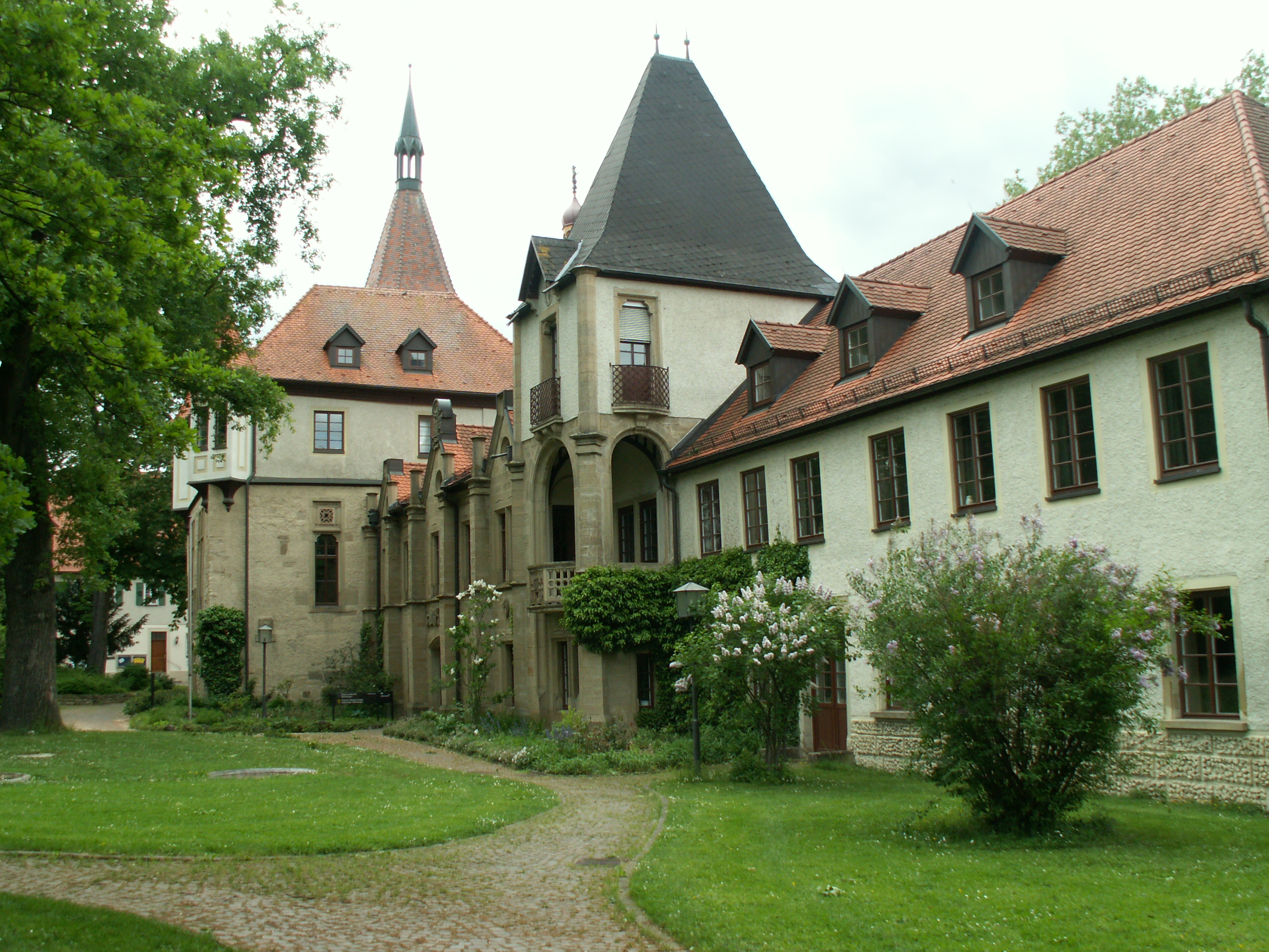 The castle of Hemmingen, Germany (today: town hall)